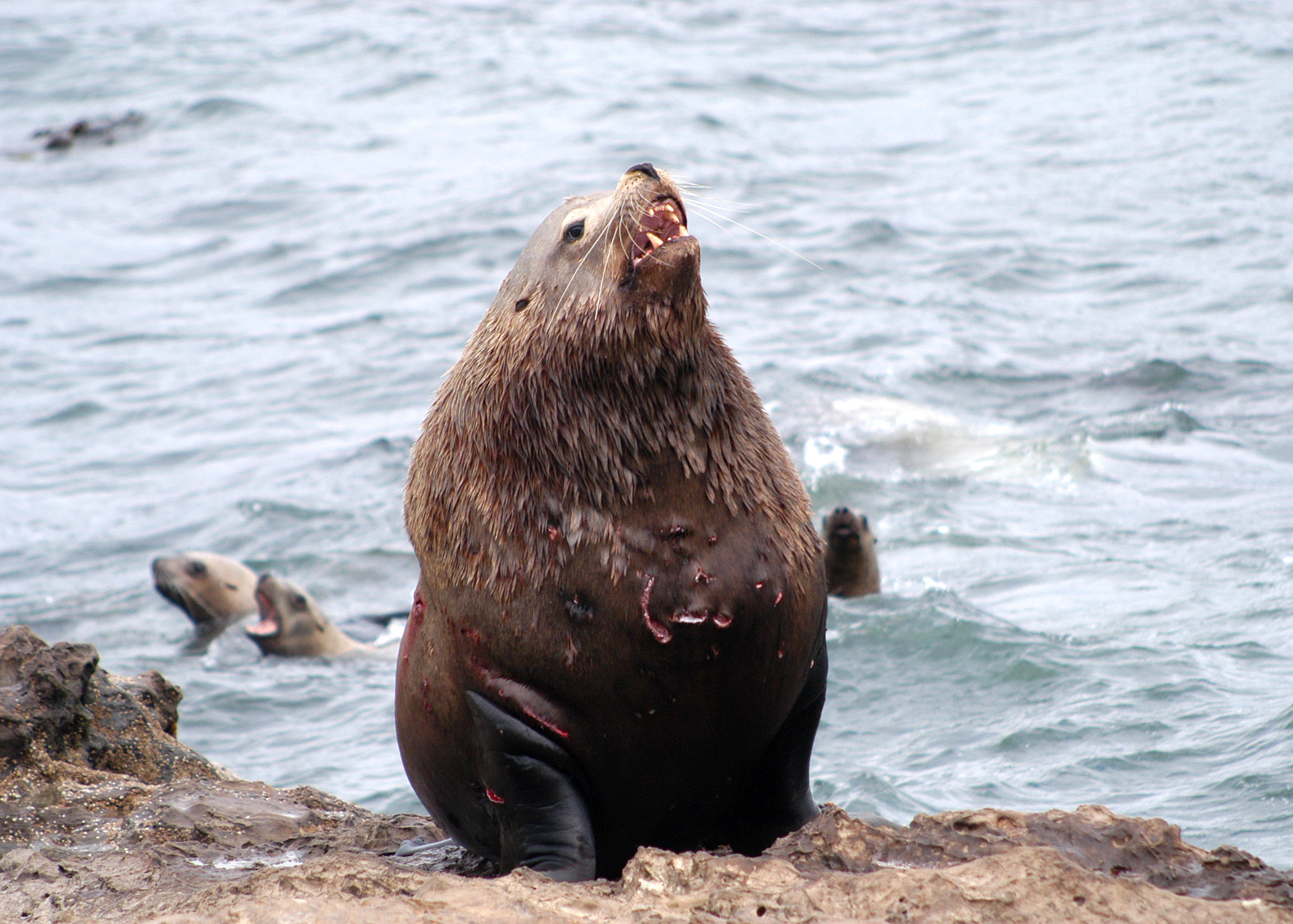 Steller sea lion bull Rogue Reef